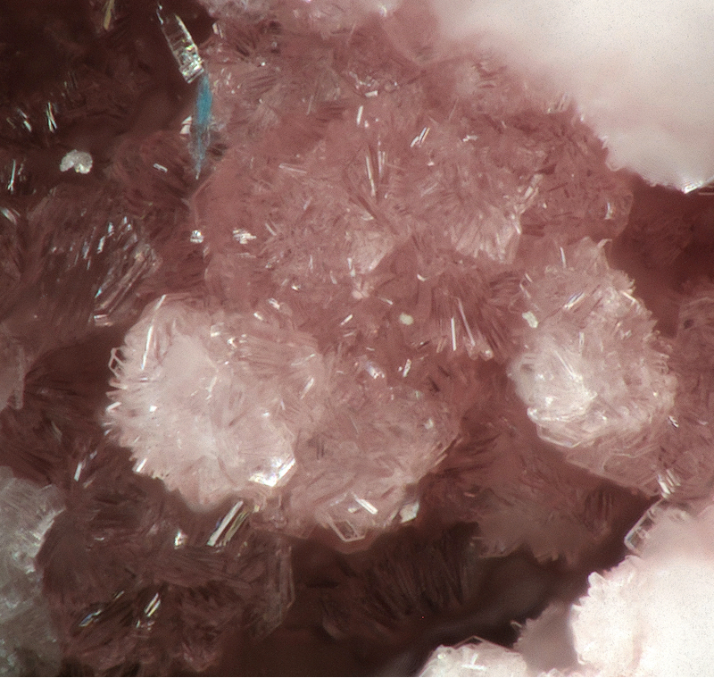 Picture width 0.4 mm. Collection and photograph Christian Rewitzer. From: Torrecillas mine, Salar Grande, El Tamarugal Province, Tarapacá Region, Chile